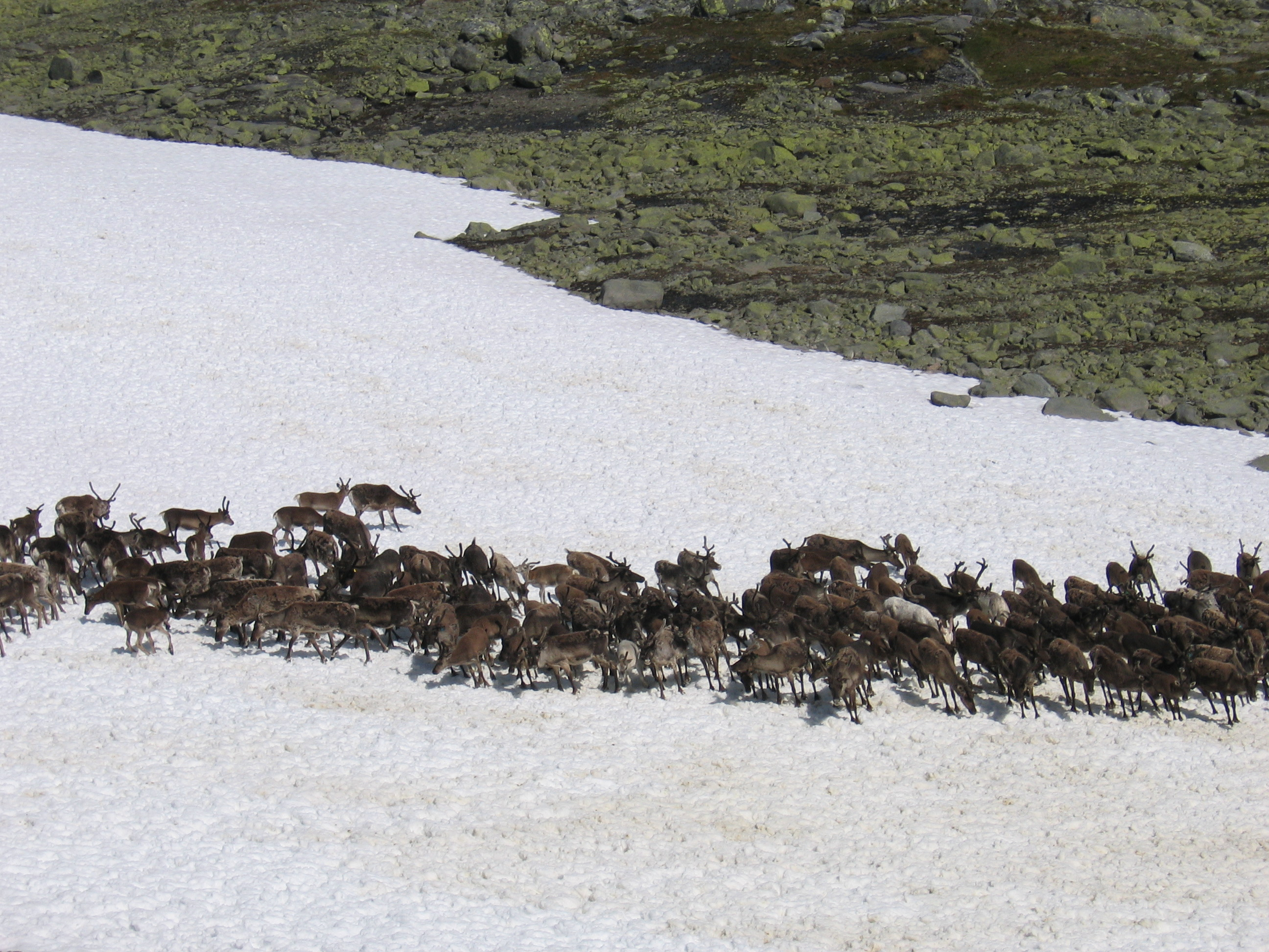 Reindeer cooling down at a spot of snow a warm summer day at Kvaløya, Tromsø in Norway.